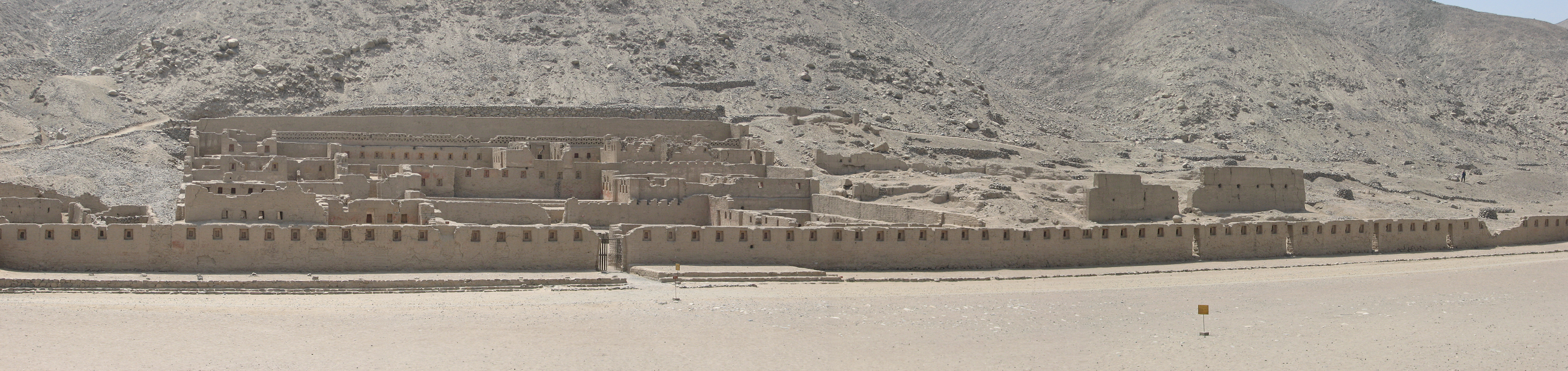 Tambo Colorado: overview.